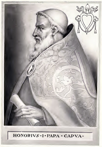 This illustration is from The Lives and Times of the Popes by Chevalier Artaud de Montor, New York: The Catholic Publication Society of America, 1911. It was originally published in 1842.